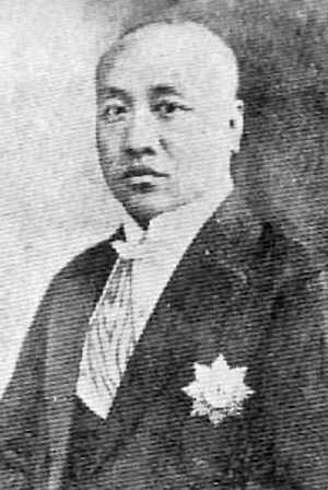 Pu Dianjun, Chinese politician, scholar. (Qing and early Republic of China)